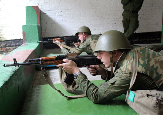 Soldiers shooting AK-74 rifles